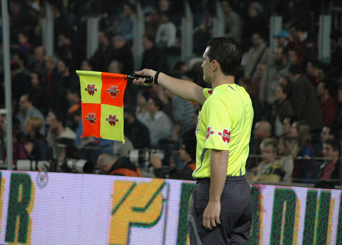 Assistant referee during the match FC Barcelona-RCD Mallorca.